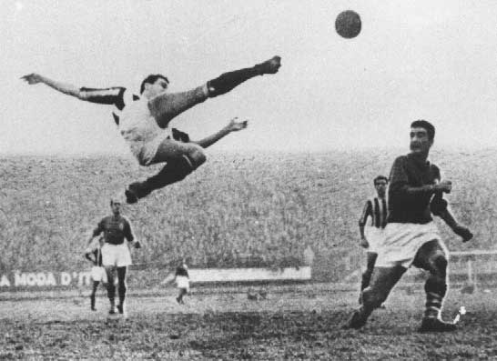 Italian footballer Carlo Parola of Juventus FC performs a bicycle kick in Florence during a League match against AC Fiorentina. Such move become soon popularized in Italy then in Europe, so much that now is known in Italy as La rovesciata di Parola (Parola's bycicle kick).